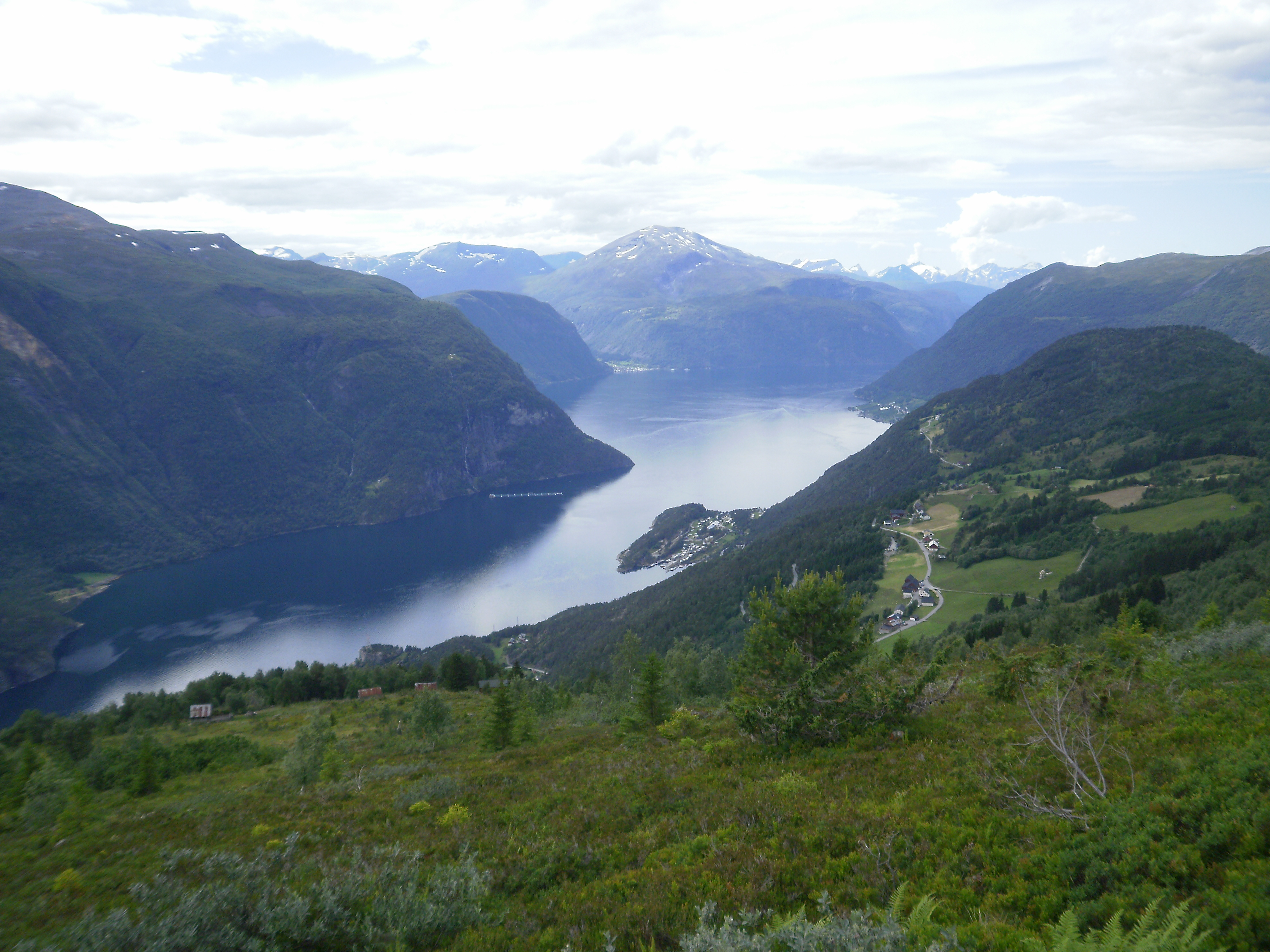 Mountains of Norway